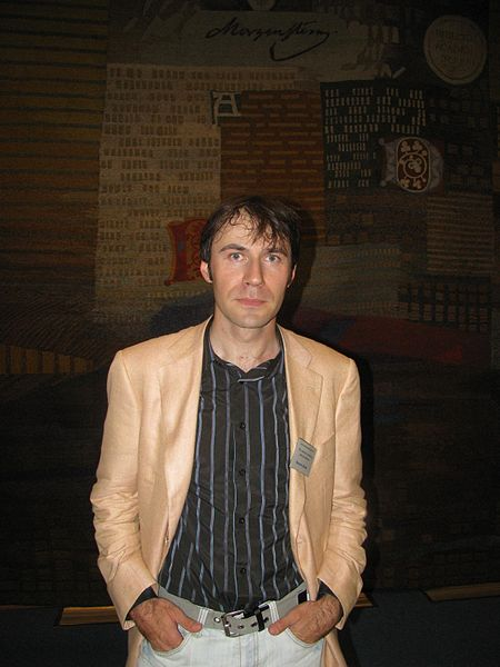 Roomet Jakapi at the VII Annual Conference of Estonian Philosophy